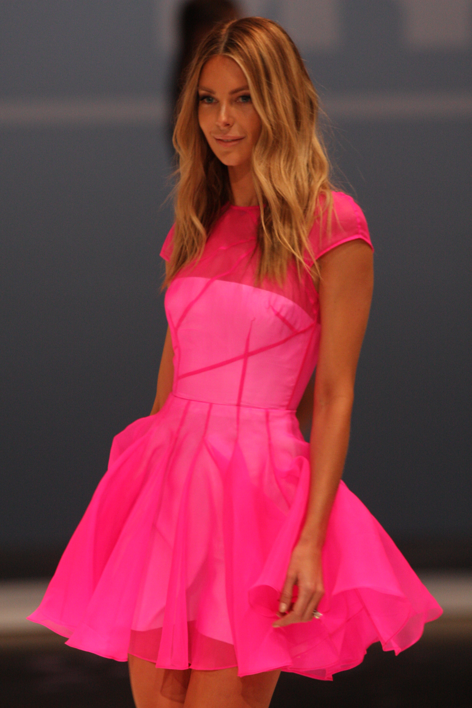 Myer Fashion Spring Launch 2015. Jennifer Hawkins showcases designs by Alex Perry